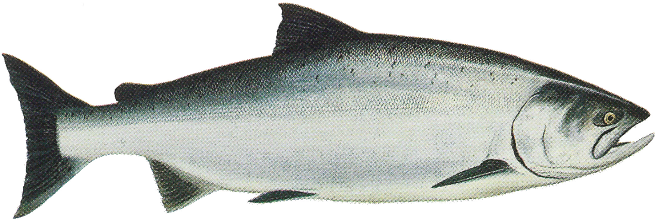 Drawing of Ocean Phase Chinook (king) salmon (Oncorhynchus tshawytscha) from a pamphlet about the Lake Washington Ship Canal Fish Ladder at the Hiram M. Chittenden Locks, Seattle, Washington, scanned at 600 dpi and cleaned up.